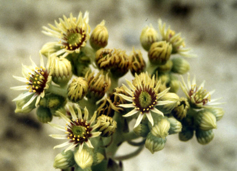 Sempervivum ruthenicum